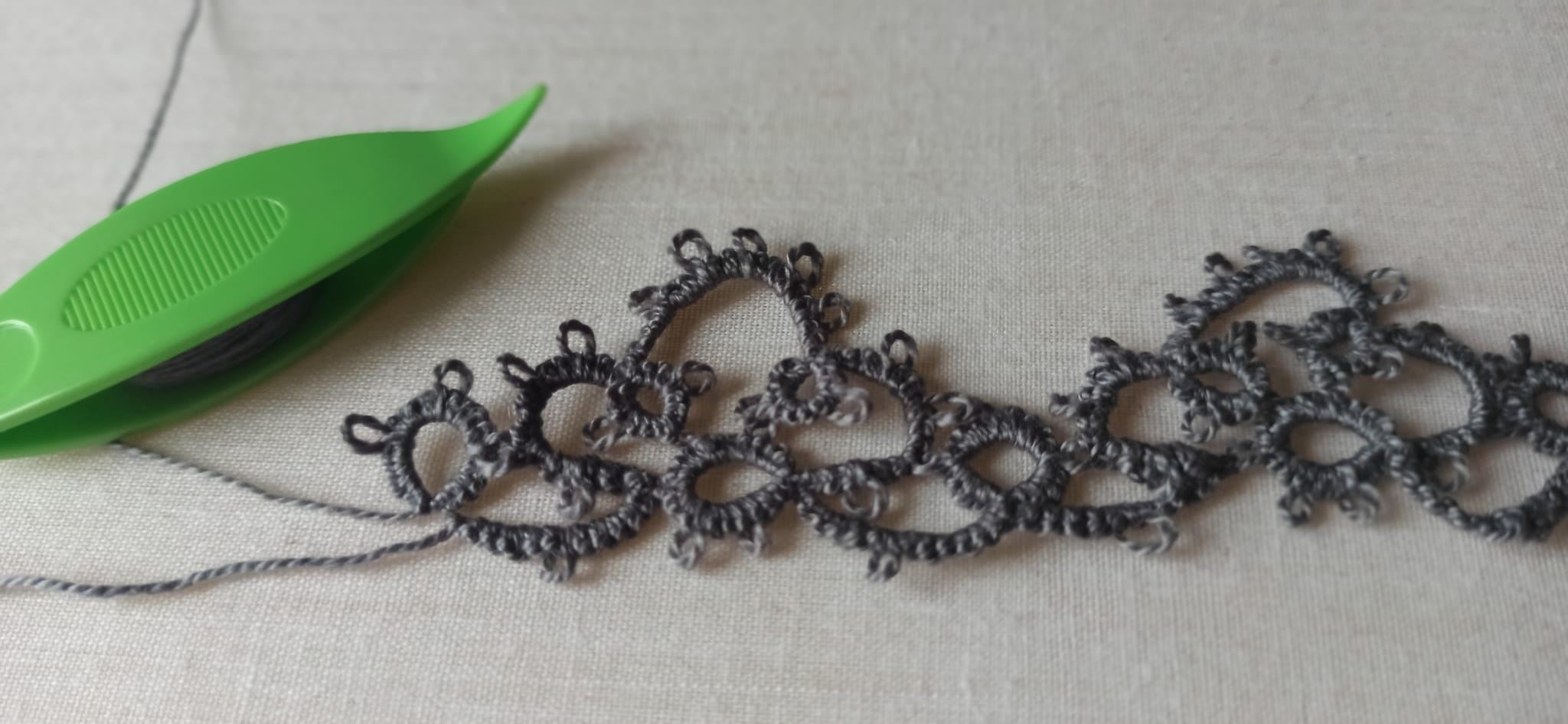 Frivolité